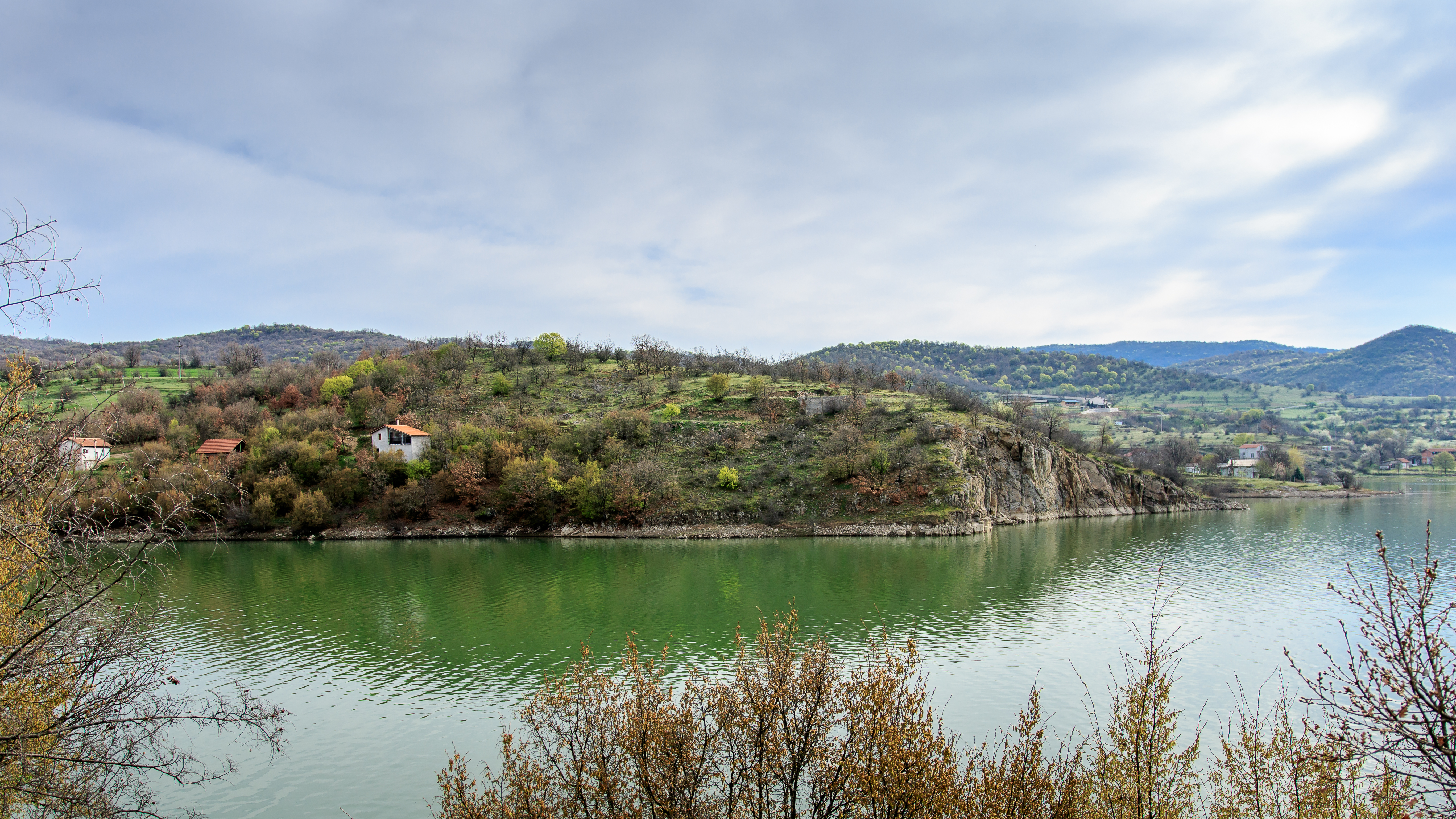 View of the Mantovo Lake